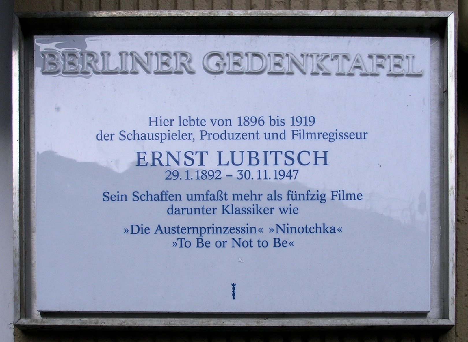 Berlin memorial plaque, Ernst Lubitsch, Schönhauser Allee 183, Berlin-Prenzlauer Berg, Germany Koordinate:52°31′48″N 13°24′37″E / 52.53°N 13.41028°E